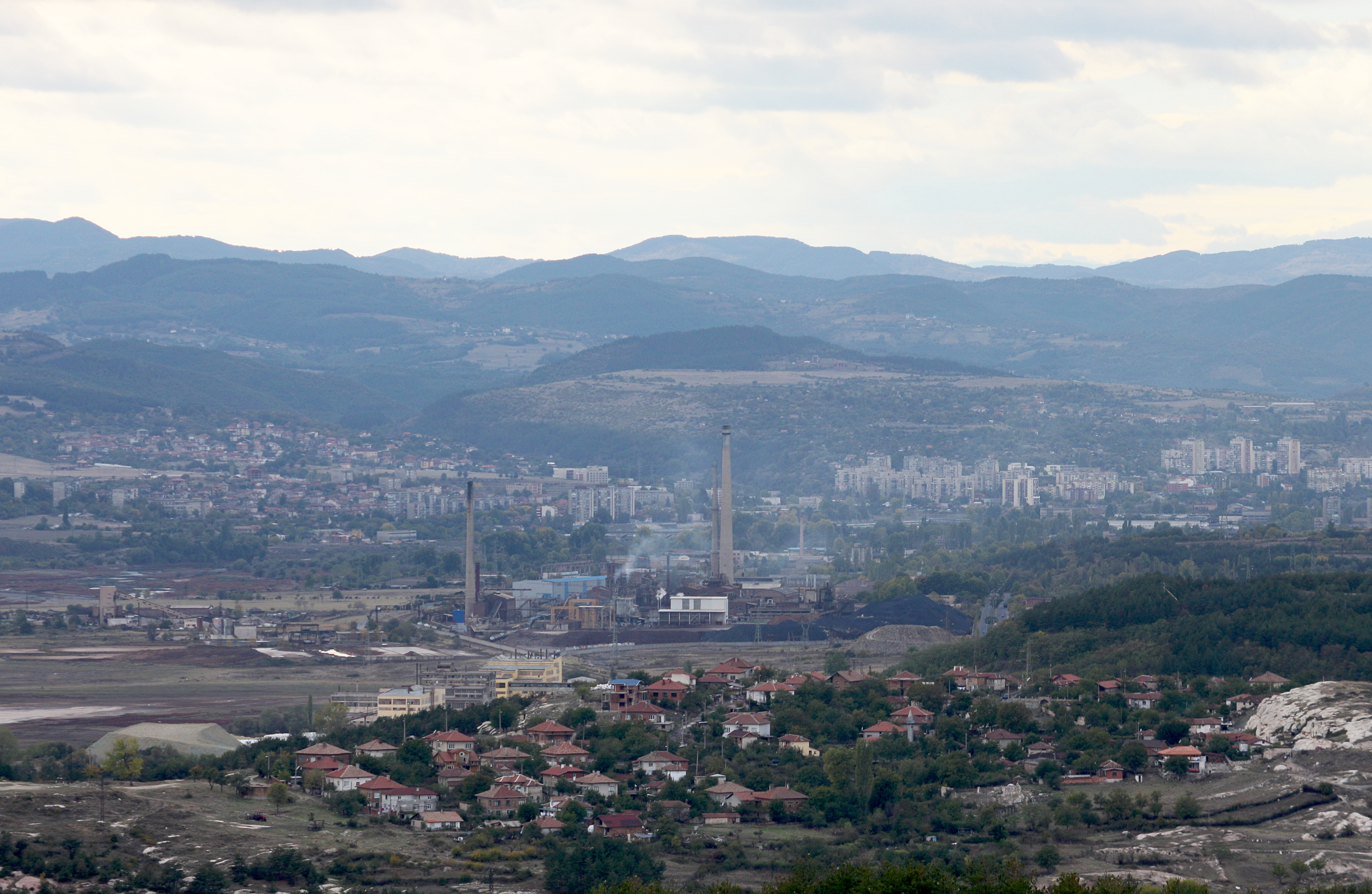 1 View from Moniak fortress, near Kardzhali